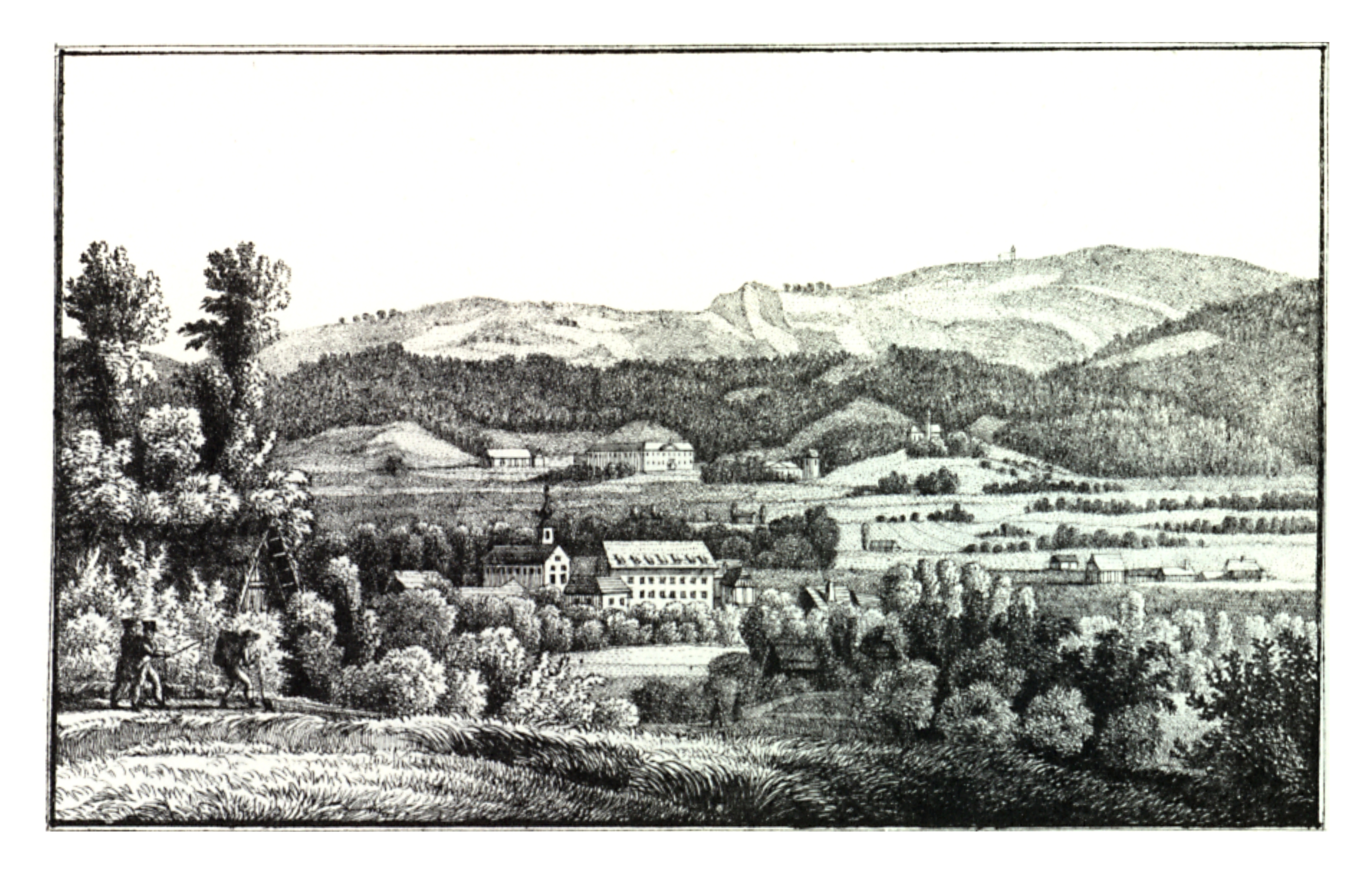 J. F. Kaiser - lithographirte Ansichten der Steyermärkischen Städte, Märkte und Schlösser Graz, 1825 Scanprojekt Community Projektbudget 2012 This scan or this PDF-file was created within the GLAM-project Bookscanning, supported by Wikimedia Germany and Wikimedia Austria as a part of the community-project to capture books, documents and pictures which are not eligible to copyright or for which the copyright has expired. This document describes or depicts an object which is located in Austria today. Send requests for uncompressed scans to Hubertl. This work is in the public domain in its country of origin and other countries and areas where the copyright term is the author's life plus 100 years or less. You must also include a United States public domain tag to indicate why this work is in the public domain in the United States. This file has been identified as being free of known restrictions under copyright law, including all related and neighboring rights.